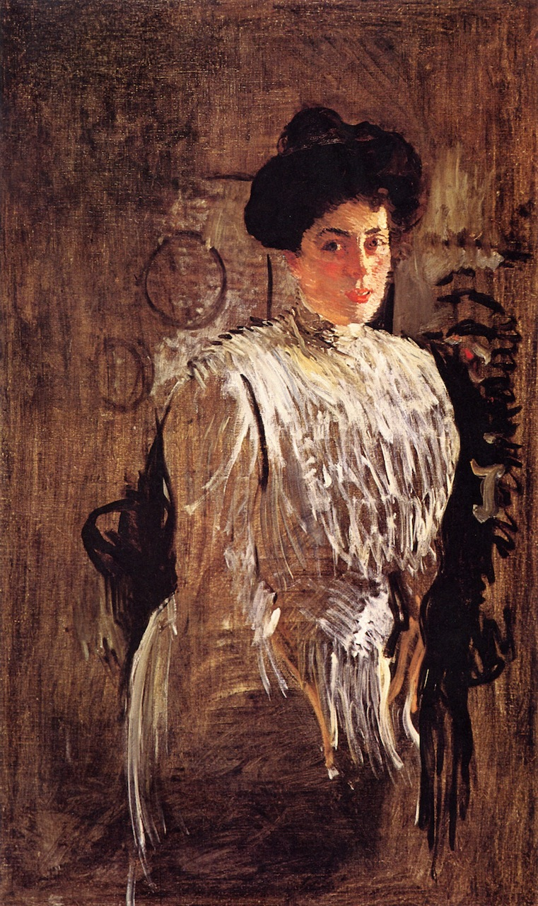 Portrait of Margarita Morozova. 1910. Oil on canvas. Art Museum of Dnepropetrovsk, Dnepropetrovsk, Ukraine. Height: 143 cm (56.3 in.), Width: 84 cm (33.07 in.)